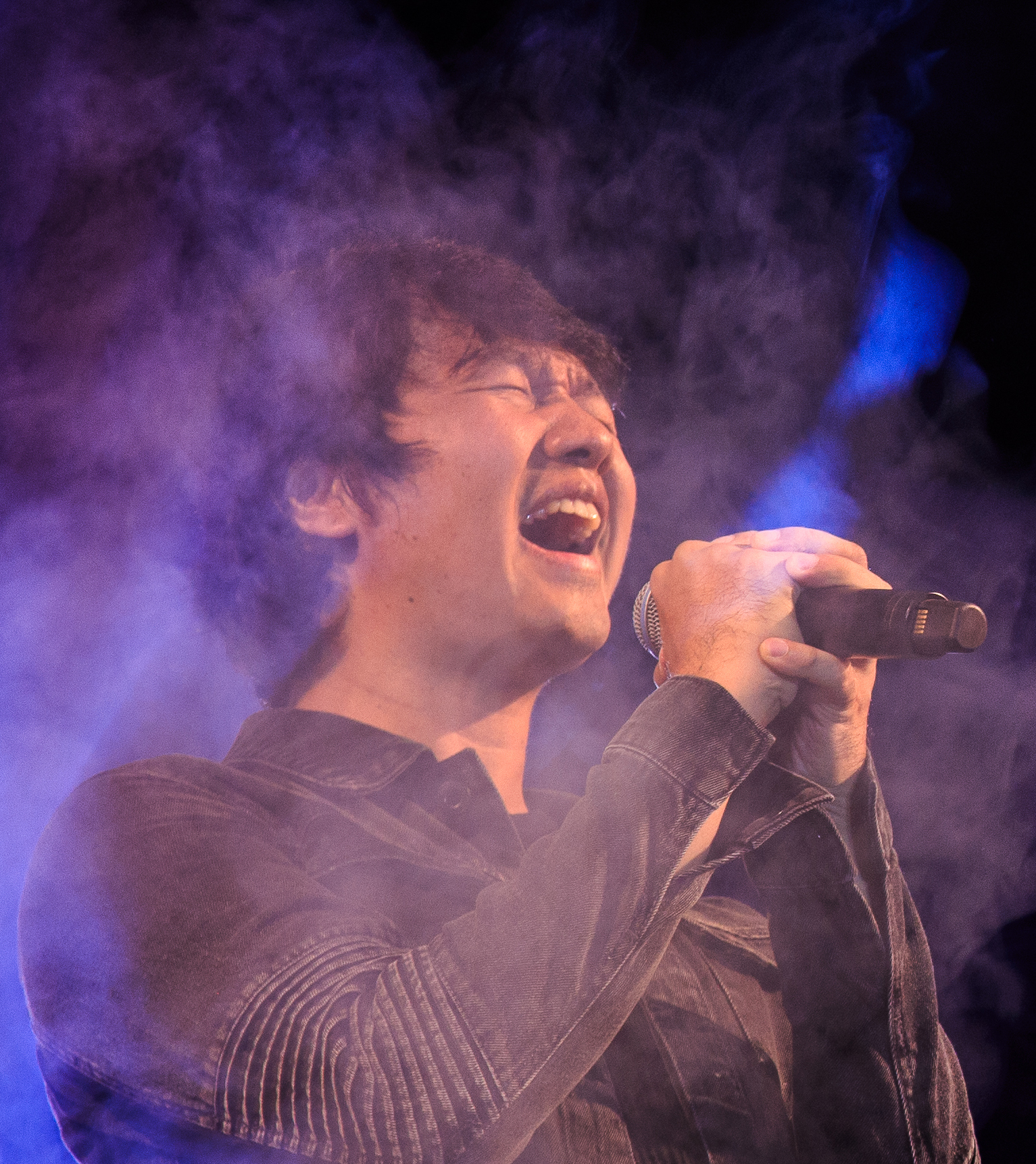 Photo from Iron Cross TOUR in INLE